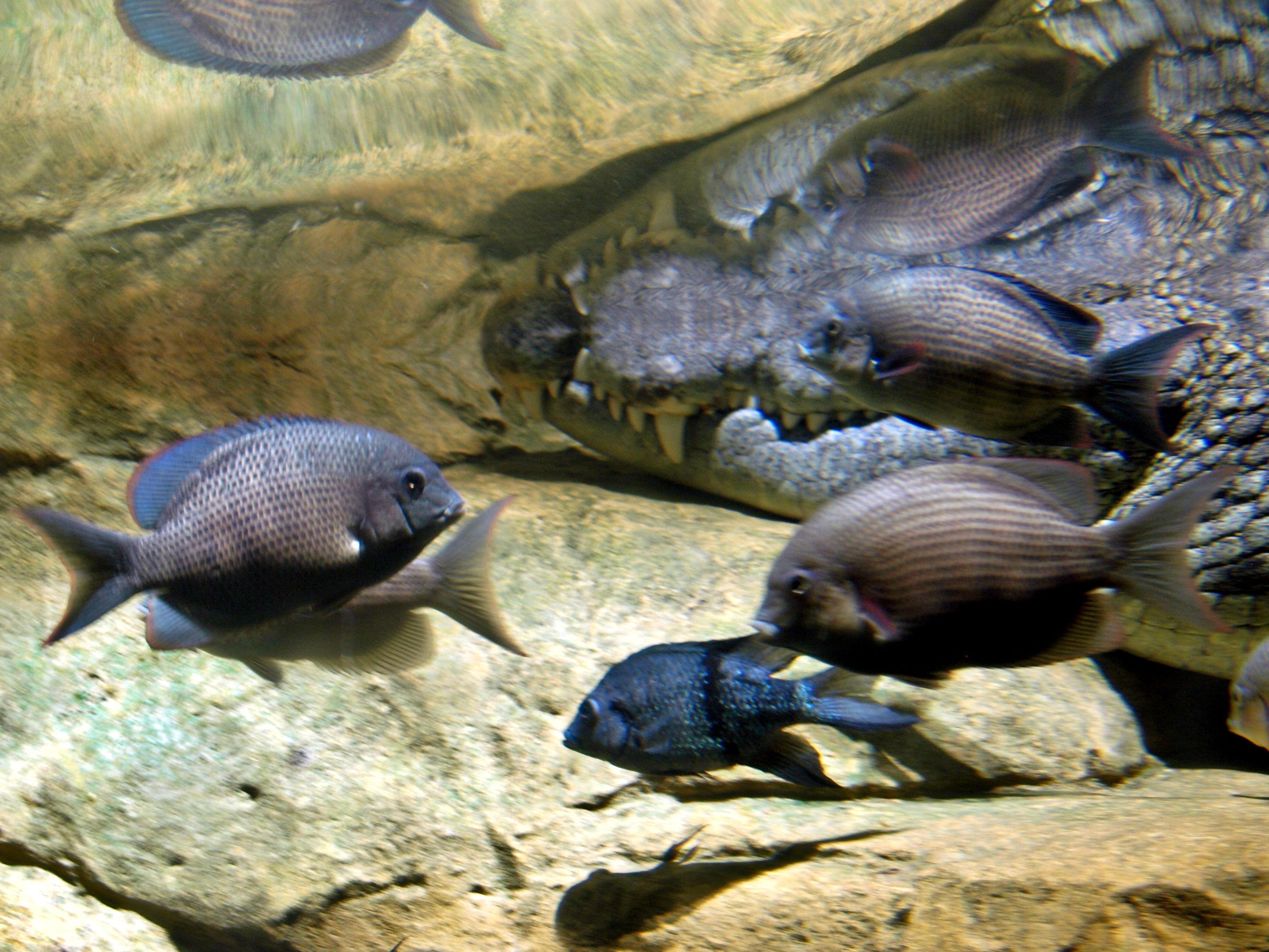 Paretroplus menarambo and a single Ptychochromis oligacanthus (lowermost fish with a dark bar on its body) in front of Nile crocodile (Crocodylus niloticus)) jaws. Location: Bronx Zoo, USA